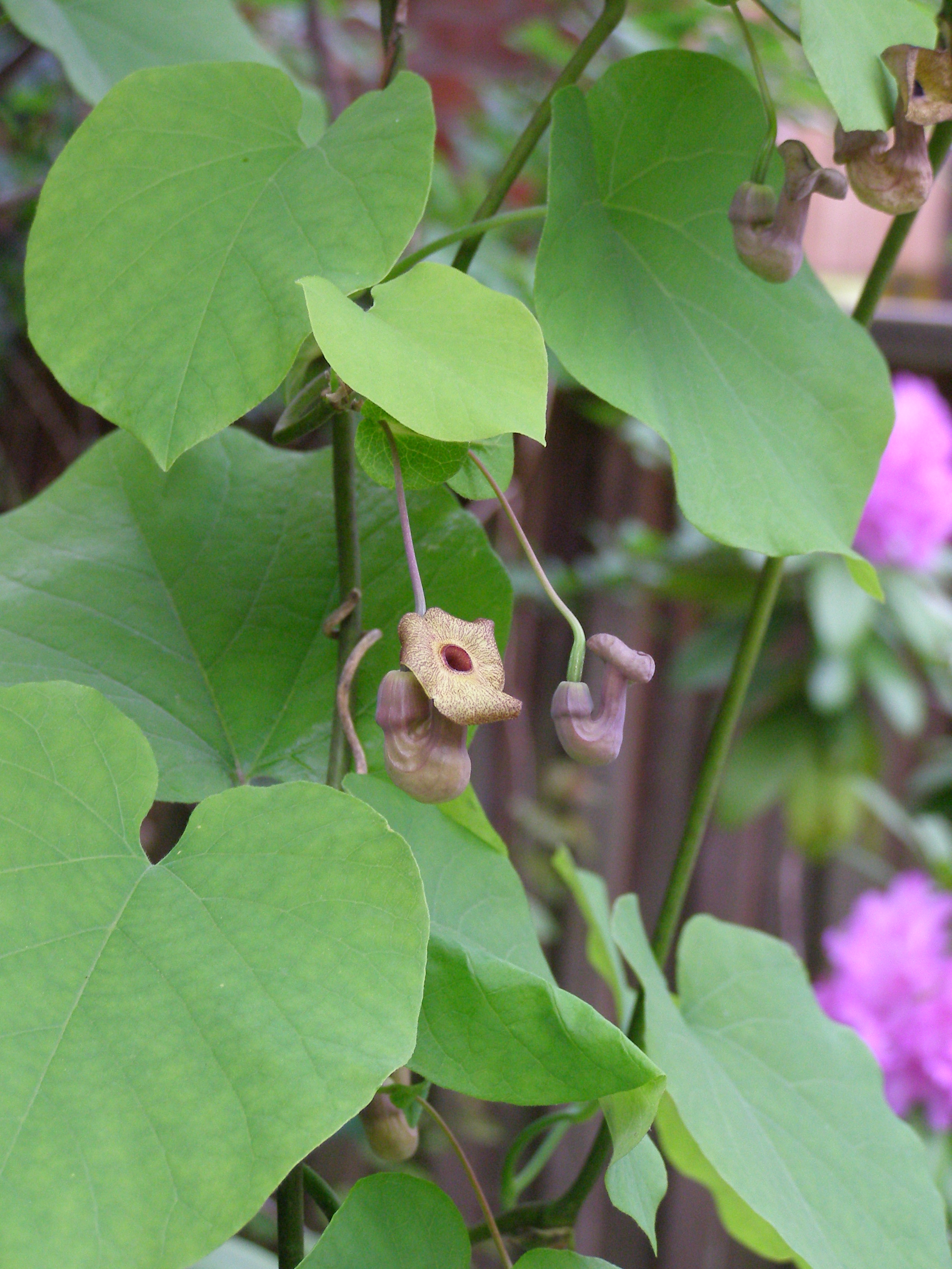 Pipevine (Aristolochia macrophylla) in a garden in Rade (municipality of Tangstedt), near Hamburg, Germany, May 2011